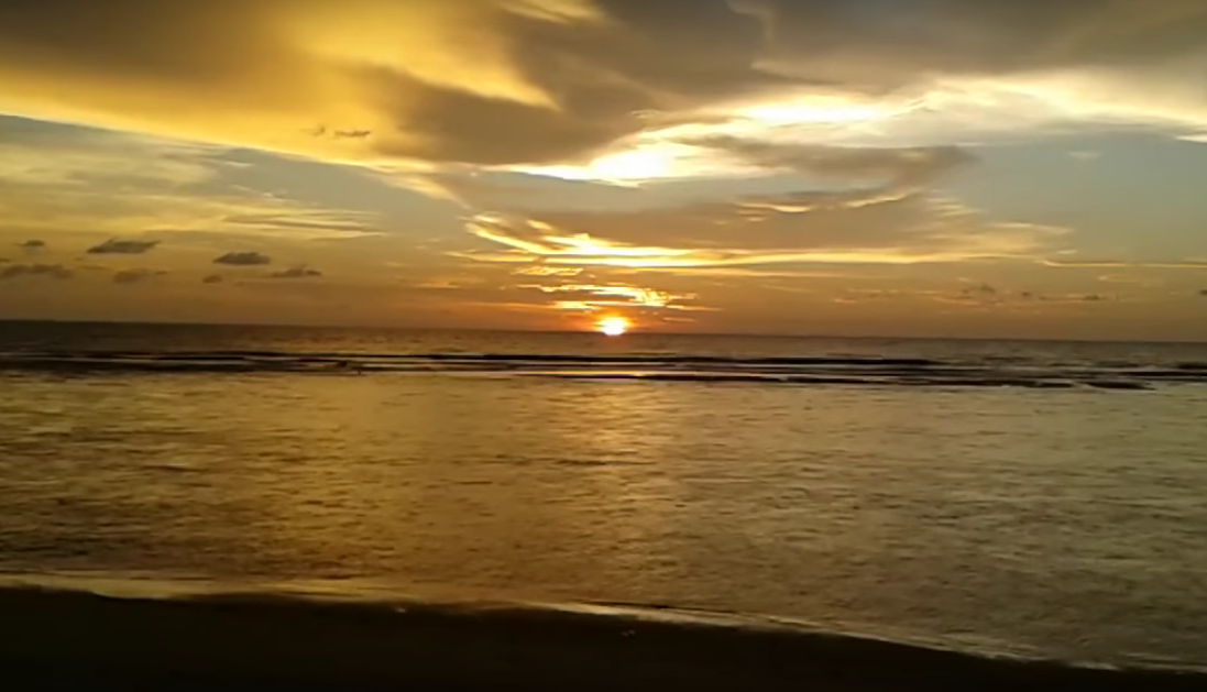 A beach in Tanur